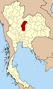 Map of Thailand highlighting Phetchabun province